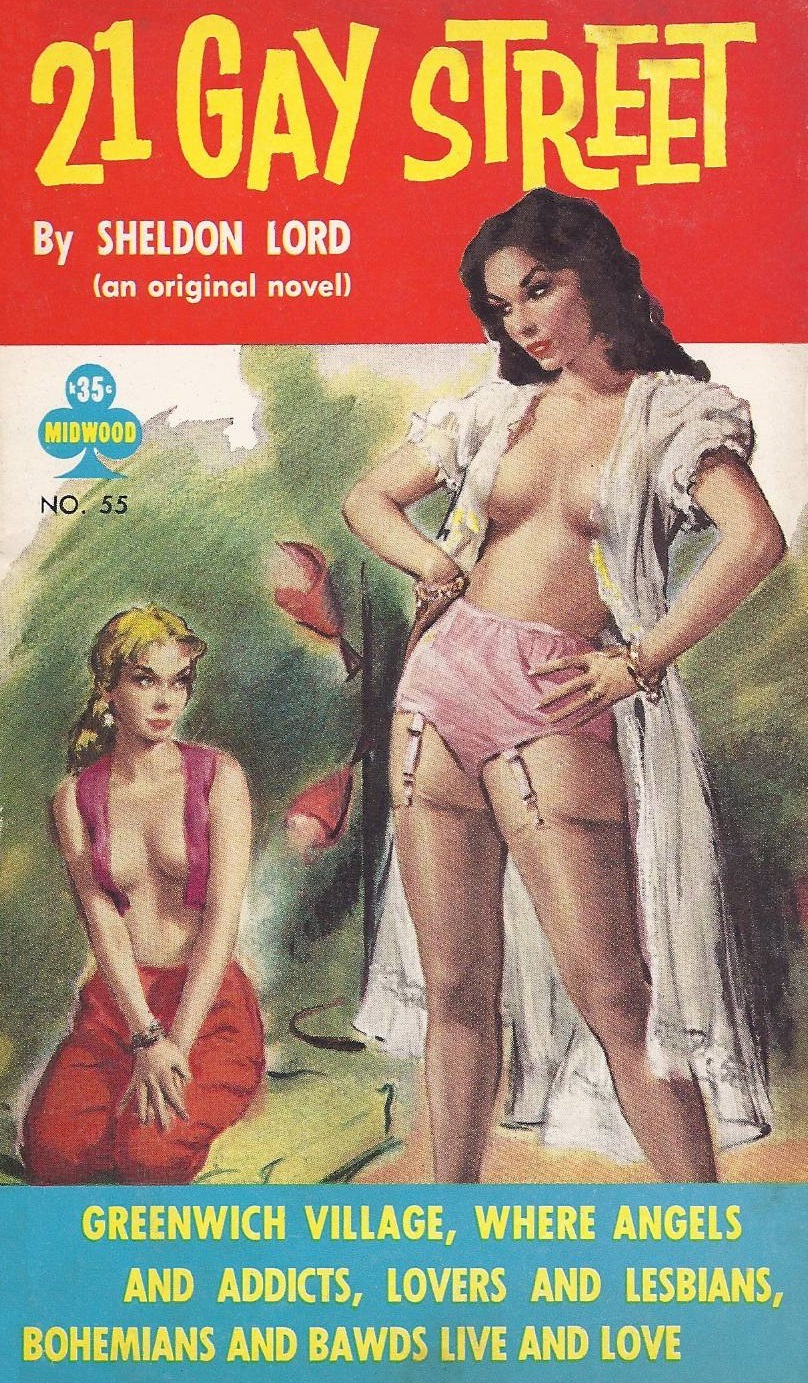 Cover of "21 Gay Street" by Sheldon Lord (Lawrence Block), 1960.